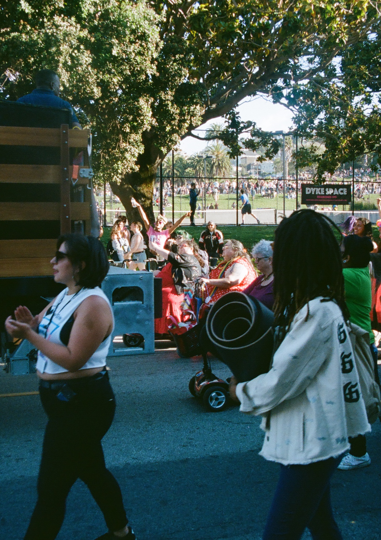 Wheelchairs lead the Dyke March, SF, 2019